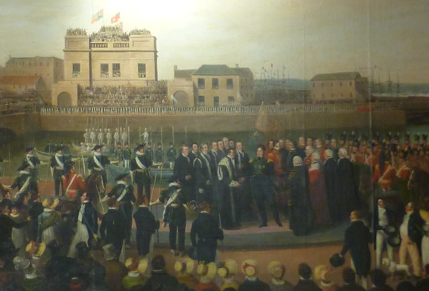 Detail from a painting by Alexander Carse showing King George IV landing on the Shore at Leith in 1822. The main building is the Custom House on the opposite bank of the Water of Leith.